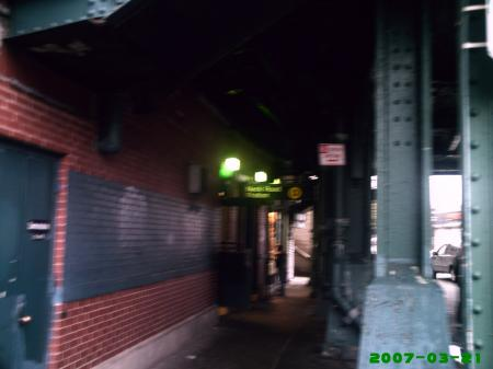 Station entrance to Neck Road